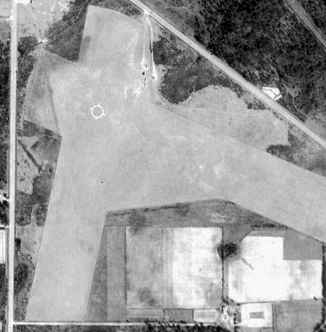 Jasper CAA Site - Florida